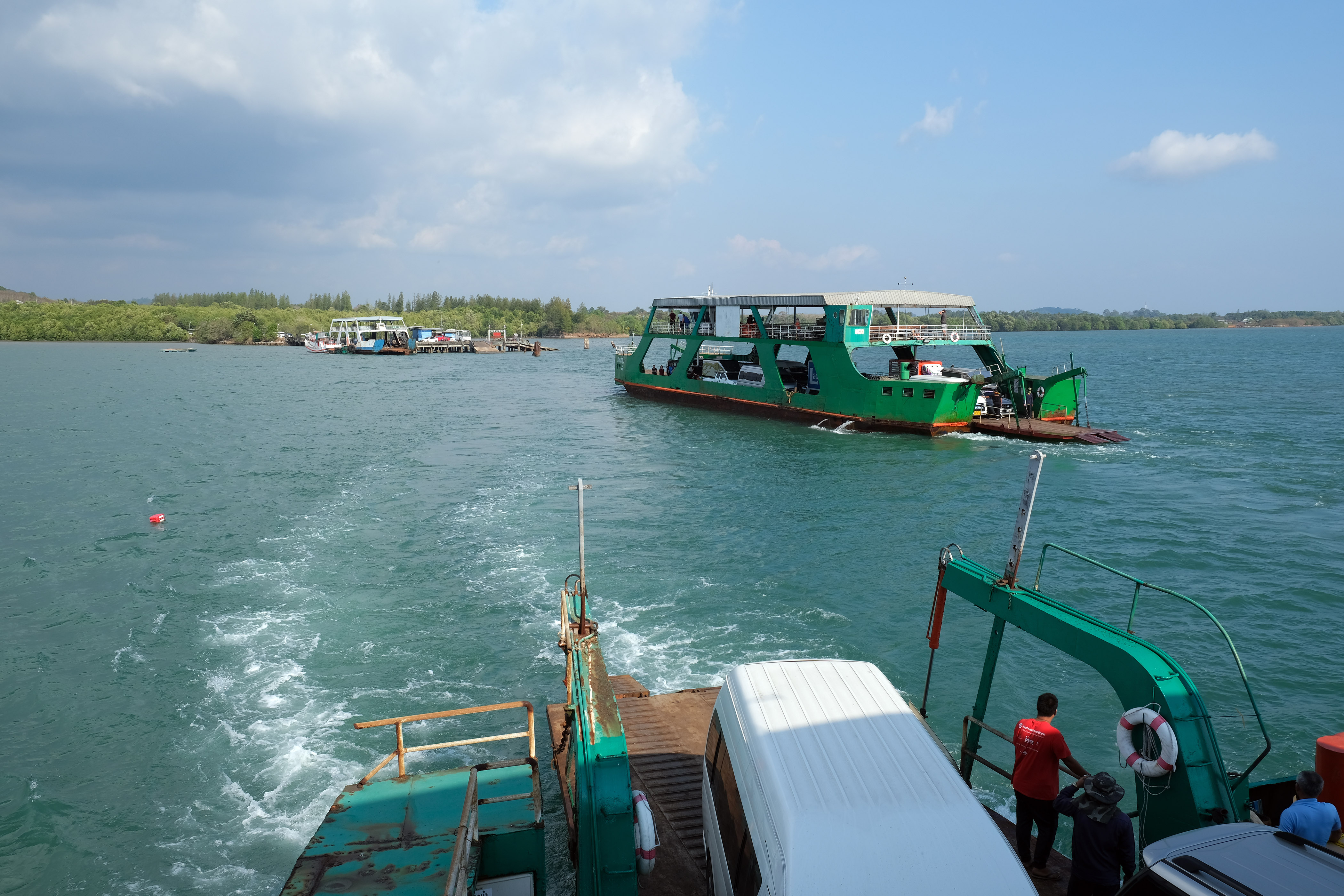 Centrepoint Ferry to Koh Chang